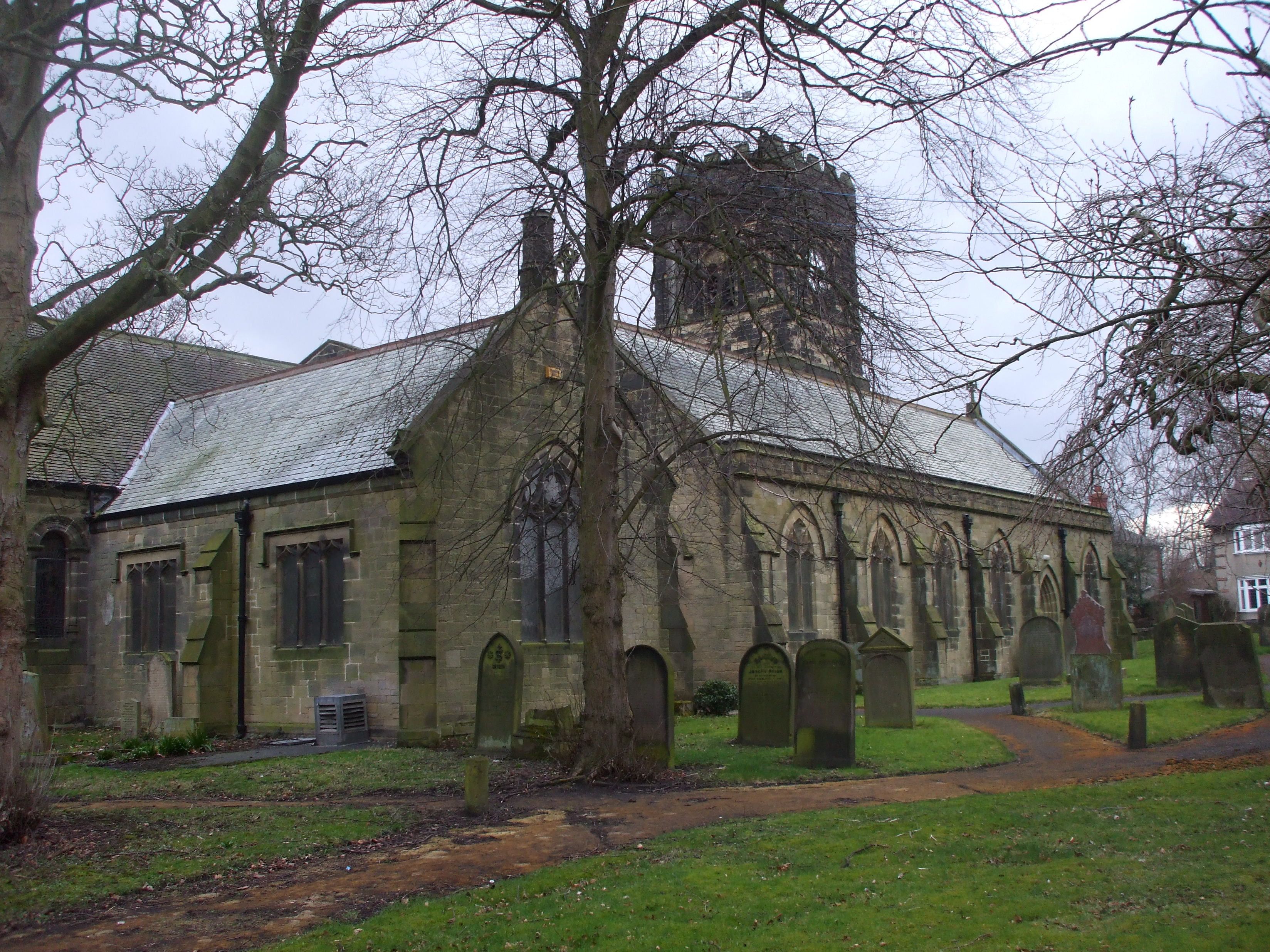 St Cuthbert's parish church, Bedlington, Northumberland, seen from the northeast